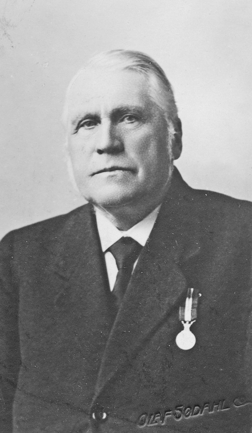 Ole Martin Augdahl (1847–1944). Mayor of Åsen (former Norwegian municipality) 1892–1919.